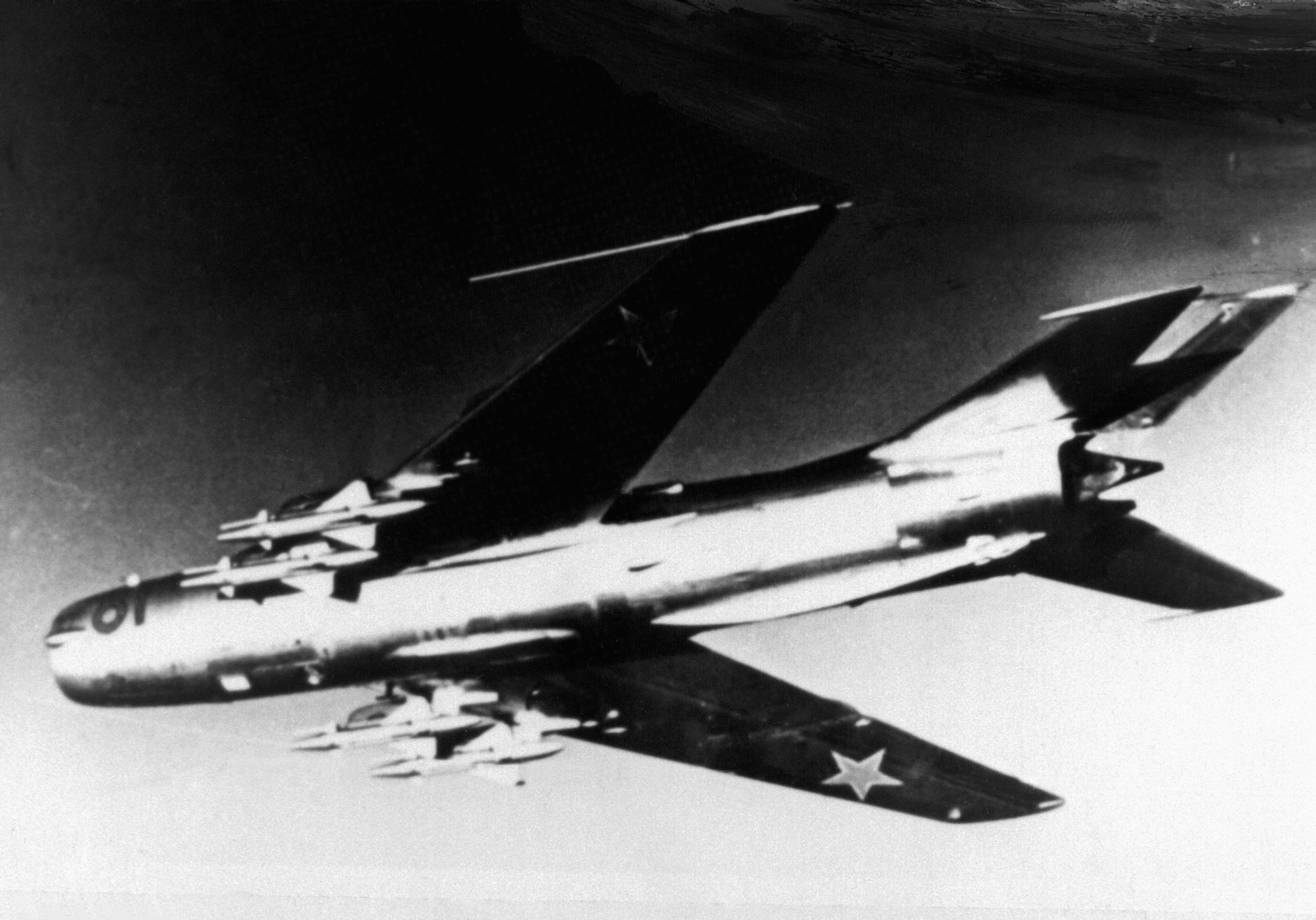 A left underside view of a Soviet MiG-19 aircraft.